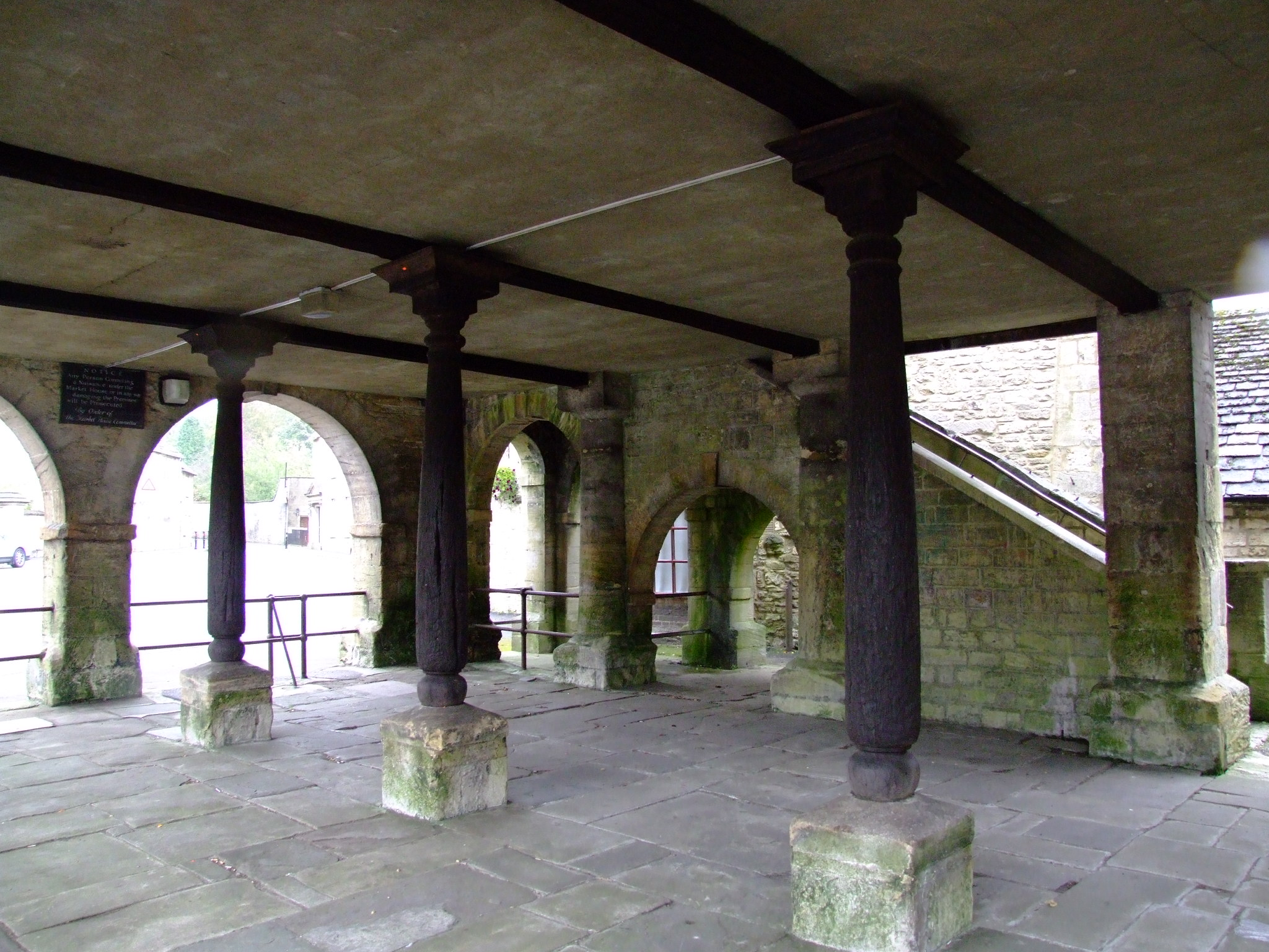 Market house in Minchinhampton in the Cotswolds. - Google Maps - Google Earth